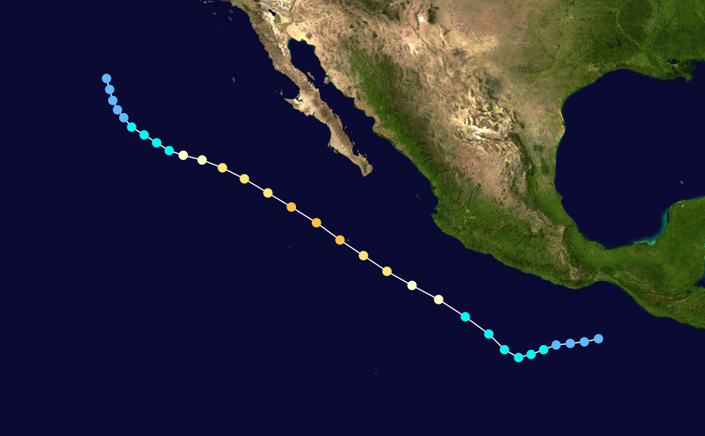 Hurricane Darby (1992) track. Uses the color scheme from the Saffir-Simpson Hurricane Scale.